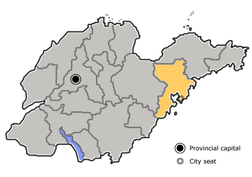 The sub-provincial city of Qingdao is highlighted on this map of Shandong province, People's Republic of China.